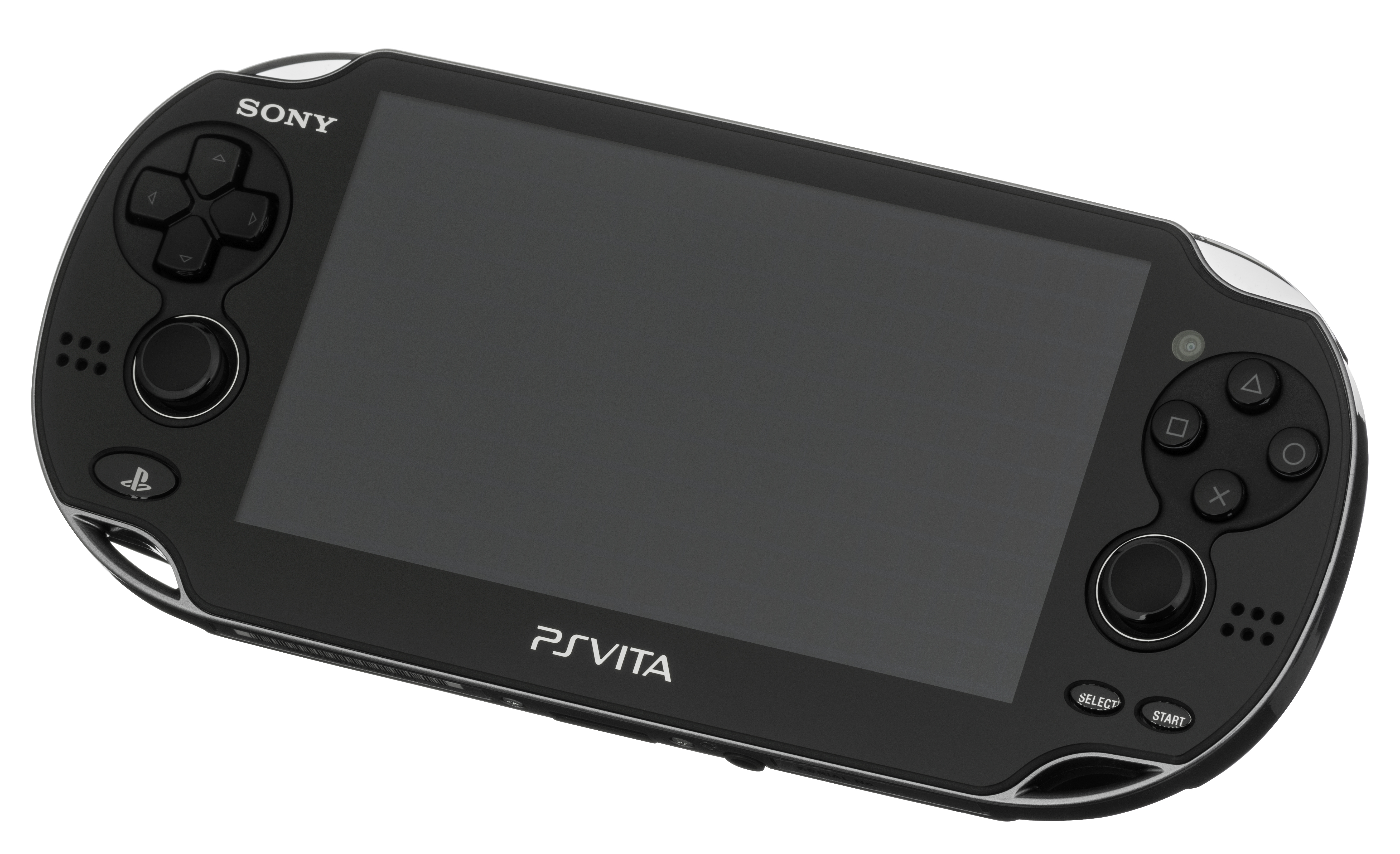 The PlayStation Vita, a handheld gaming console by Sony released in 2012. The successor to the PlayStation Portable (PSP), the Vita has numerous improvements over the previous system. It has rear and front touchscreens, dual analog sticks and a higher resolution OLED screen. This model, the PCH-1101 also has built-in 3G wireless service support, but also comes in a Wi-Fi (PCH-1001) model.